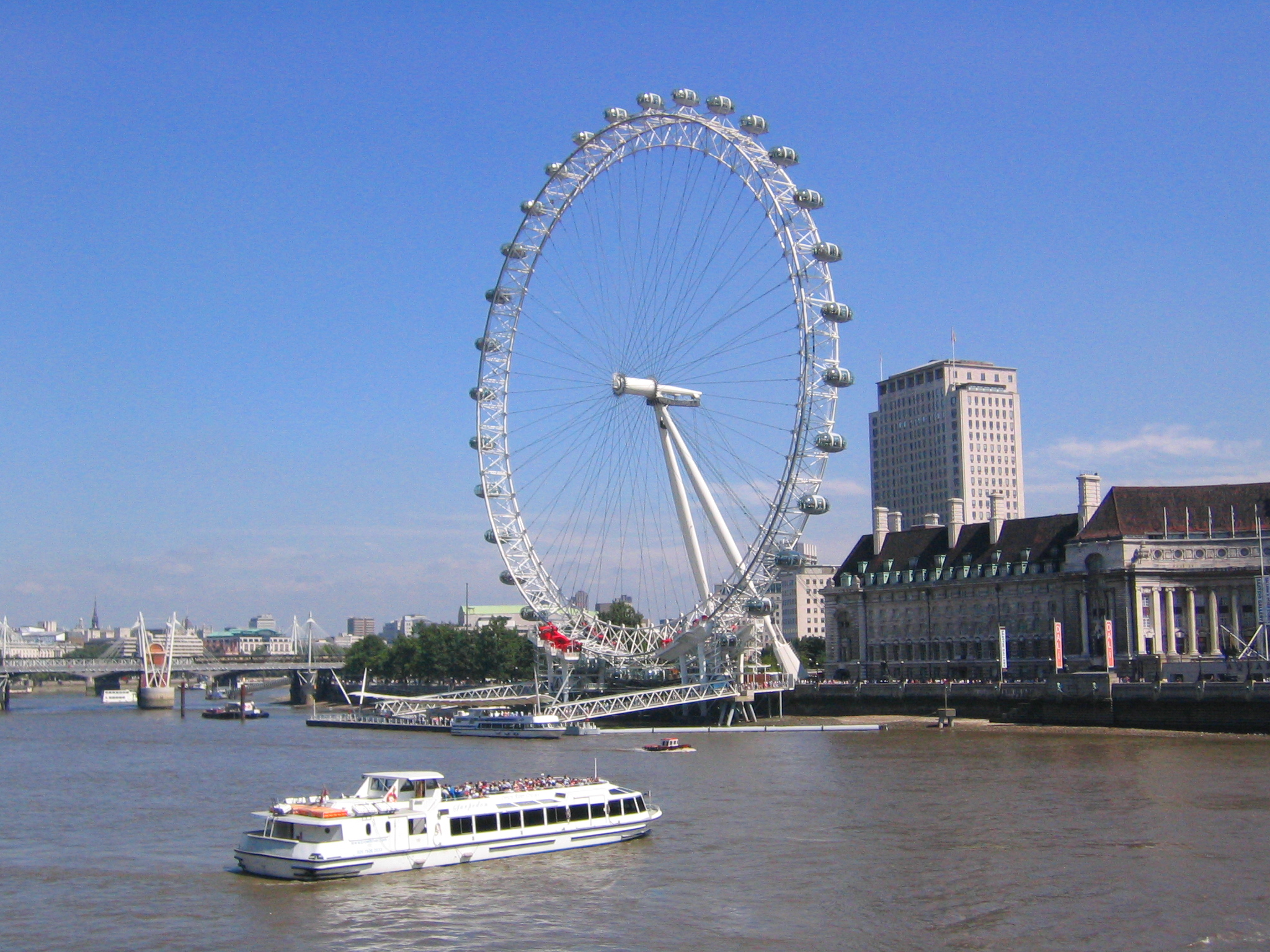 London Eye